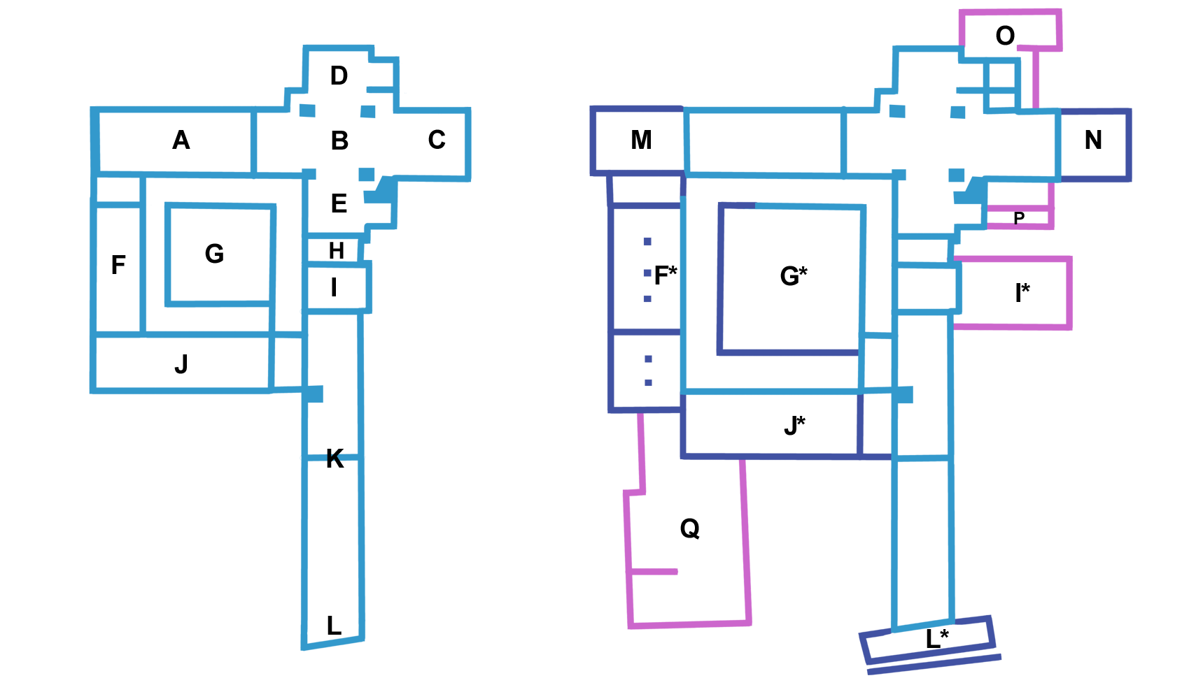 Plan of Norton Priory, near Runcorn, England, in the 12th century (left) and 13th century (right) Key: Light blue: early 12th century; dark blue: late 12th century; pink: early–mid 13th century. A: nave; B: choir; C: chancel; D: north transept; E: south transept; F: cellarer's range; G: cloister; H: sacristy; I: chapter house; J: refectory; K: dormitory; L: latrines; M: extended west front; N: extended chancel; O: north chapel; P: south chapel; Q: kitchens. Asterisk denotes buildings of similar function in a different later location.